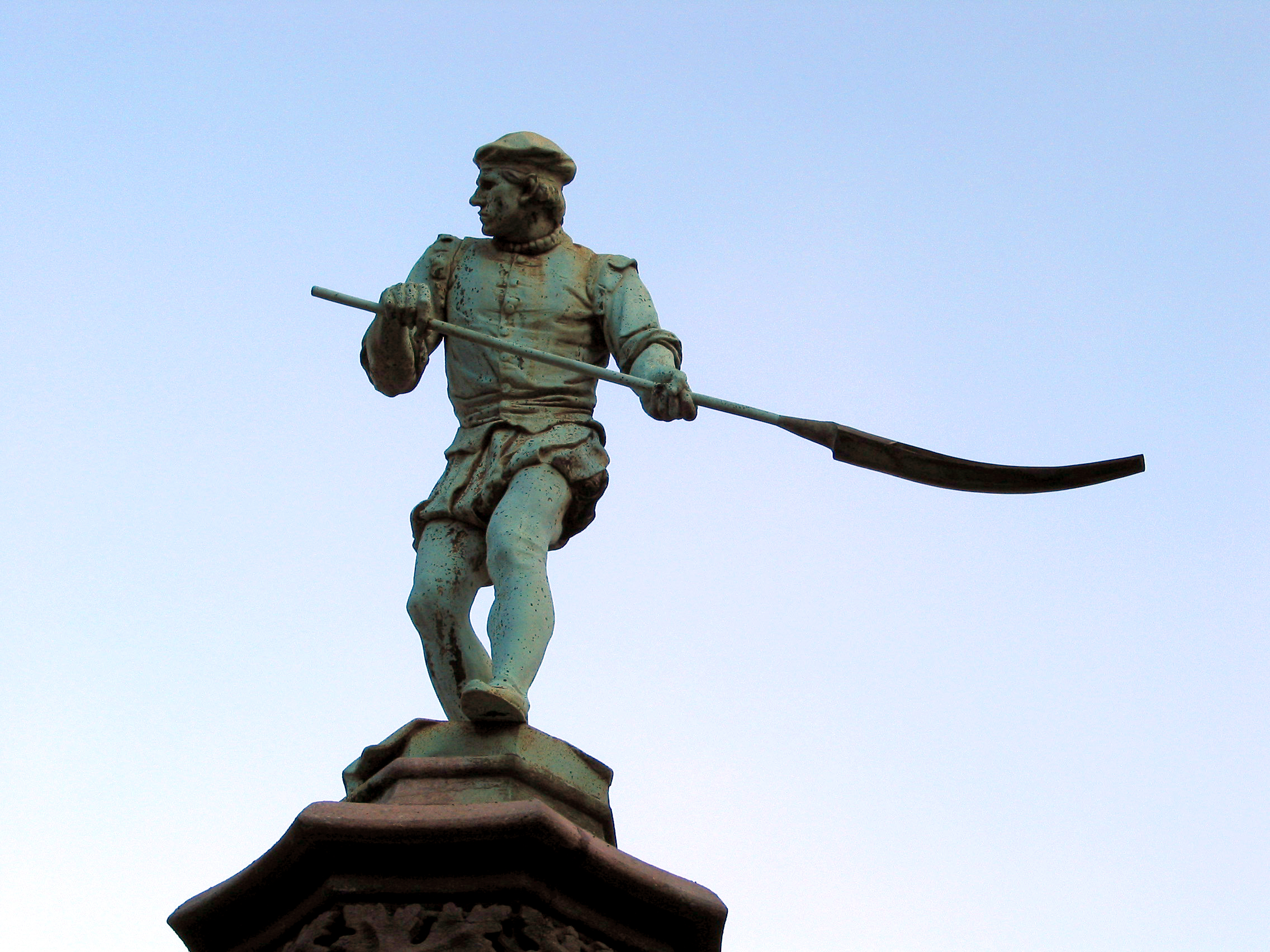 Brussels (Belgium), Petit Sablon Square - Craft guild statue of the Bleacher (Launderer) by the sculptor Jef Lambeaux (XIXth century).